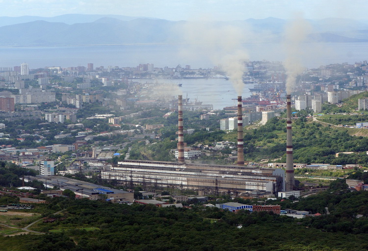 Vladivostok's thermal power plant #2 (Vladivostok TETs 2)